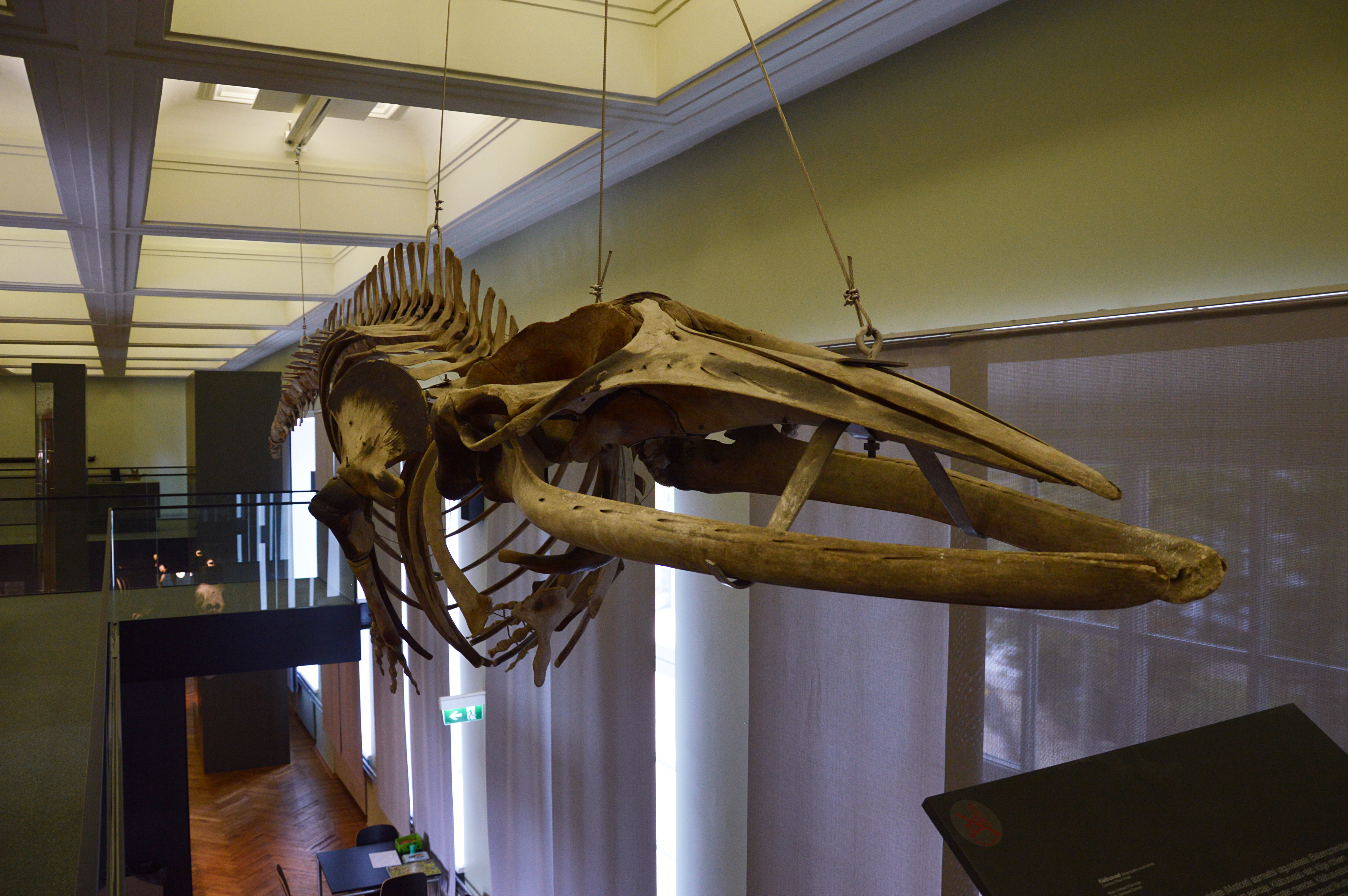 Skeleton of the common minke whale. Largest item in the University of Tartu Natural History Museum.